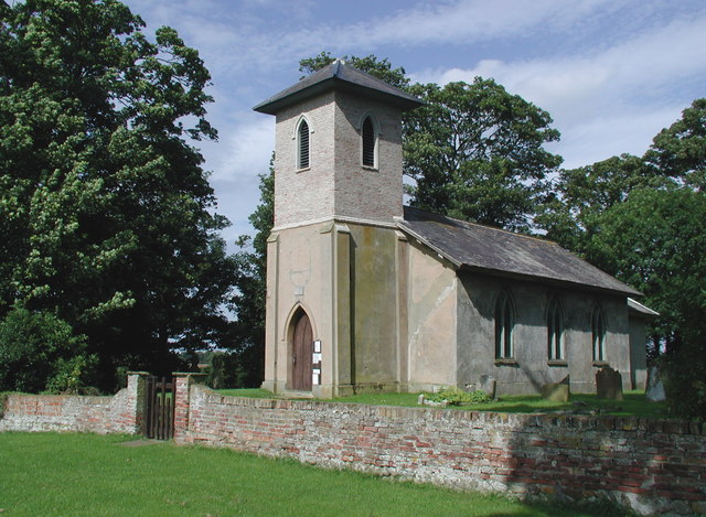 St Giles Church, Goxhill, East Riding of Yorkshire, England. The smallest of the North Holderness parishes, Goxhill (thought to mean 'Cuckoo Hill') was united with the civil parishes of Great and Little Hatfield to form Hatfield parish in 1935, and may be the site of the lost village of Arnestorp recorded in 1086. A church existed at Goxhill by the early 13th century and was dedicated to St. Giles by 1412. The building has a history of falling into disrepair and being largely rebuilt again often at the expense of the Constable family of Wassand, some of whom are buried here. Major restoration work was carried out on the tower in October 2005.